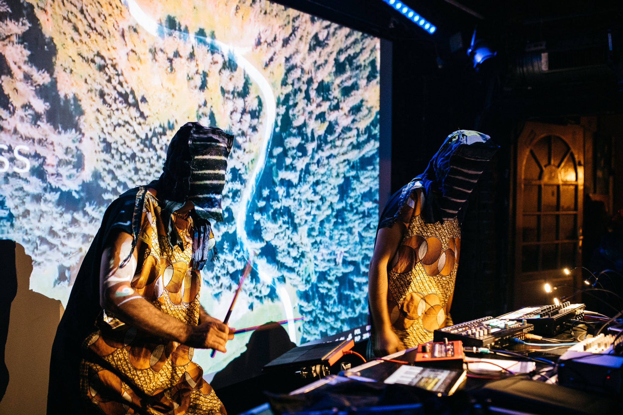 RSS B0YS playing live act during EtnoElekto night